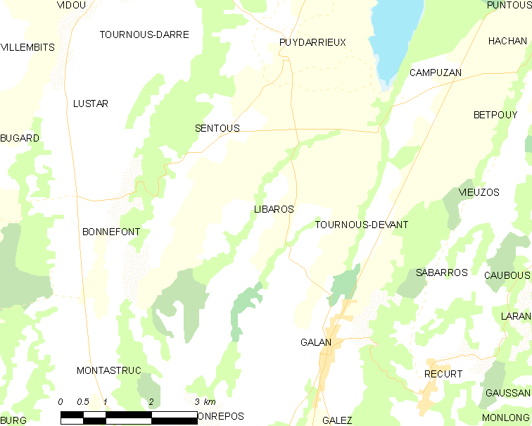 Map of French municipality